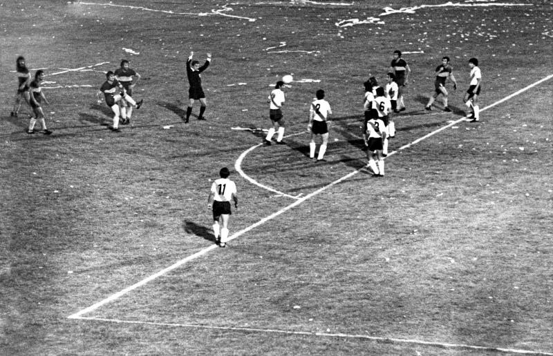 Rubén Suñé kicking the ball to River Plate's goal, in the championship final played at Racing Club stadium of Avellaneda. Boca won 1-0 with this goal.